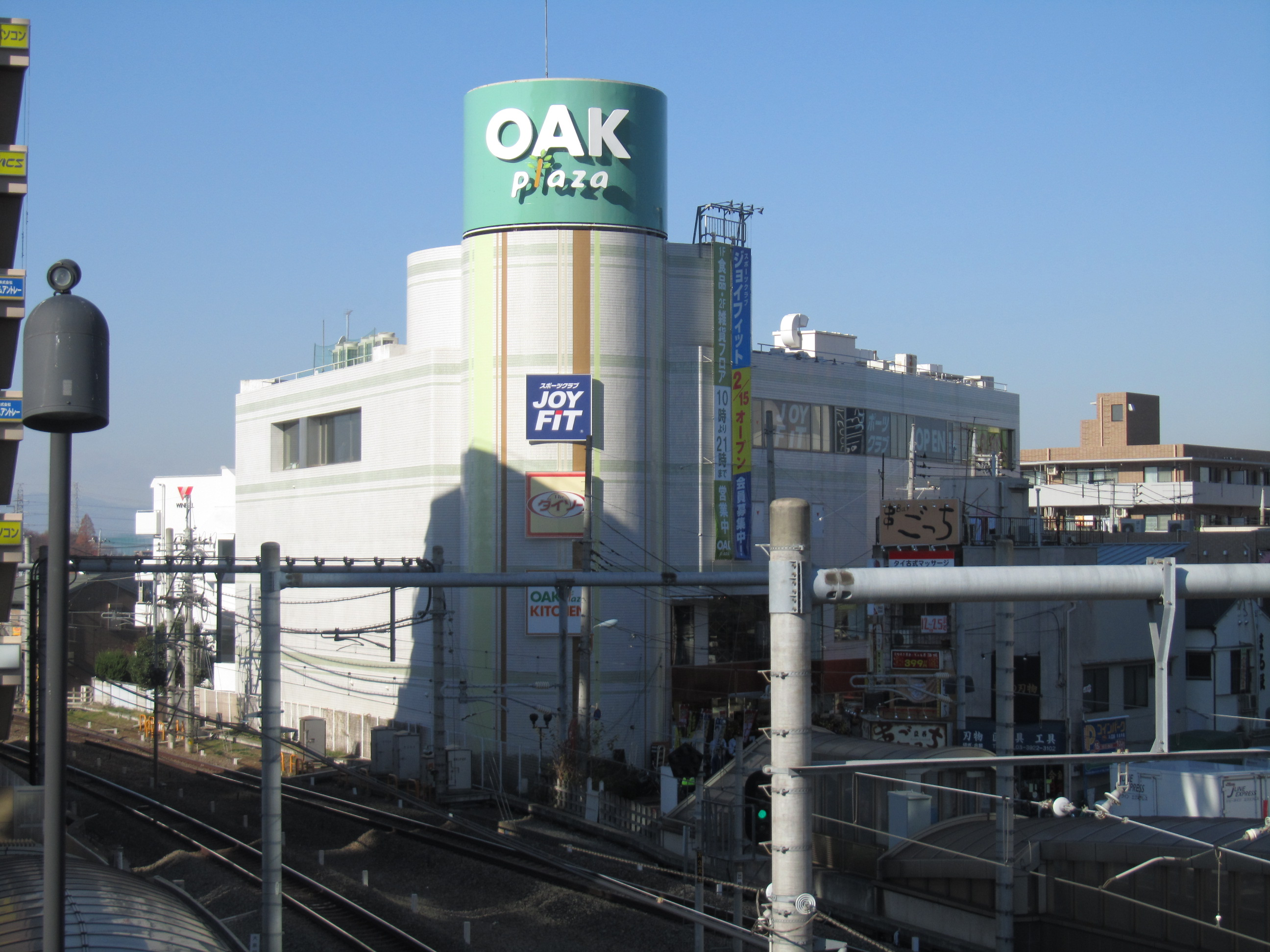 oak